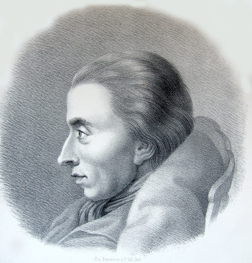 The danish poet Johannes Ewald